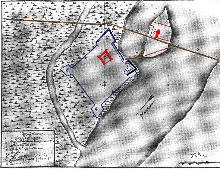 Tykocin Castle from begining 17 c.